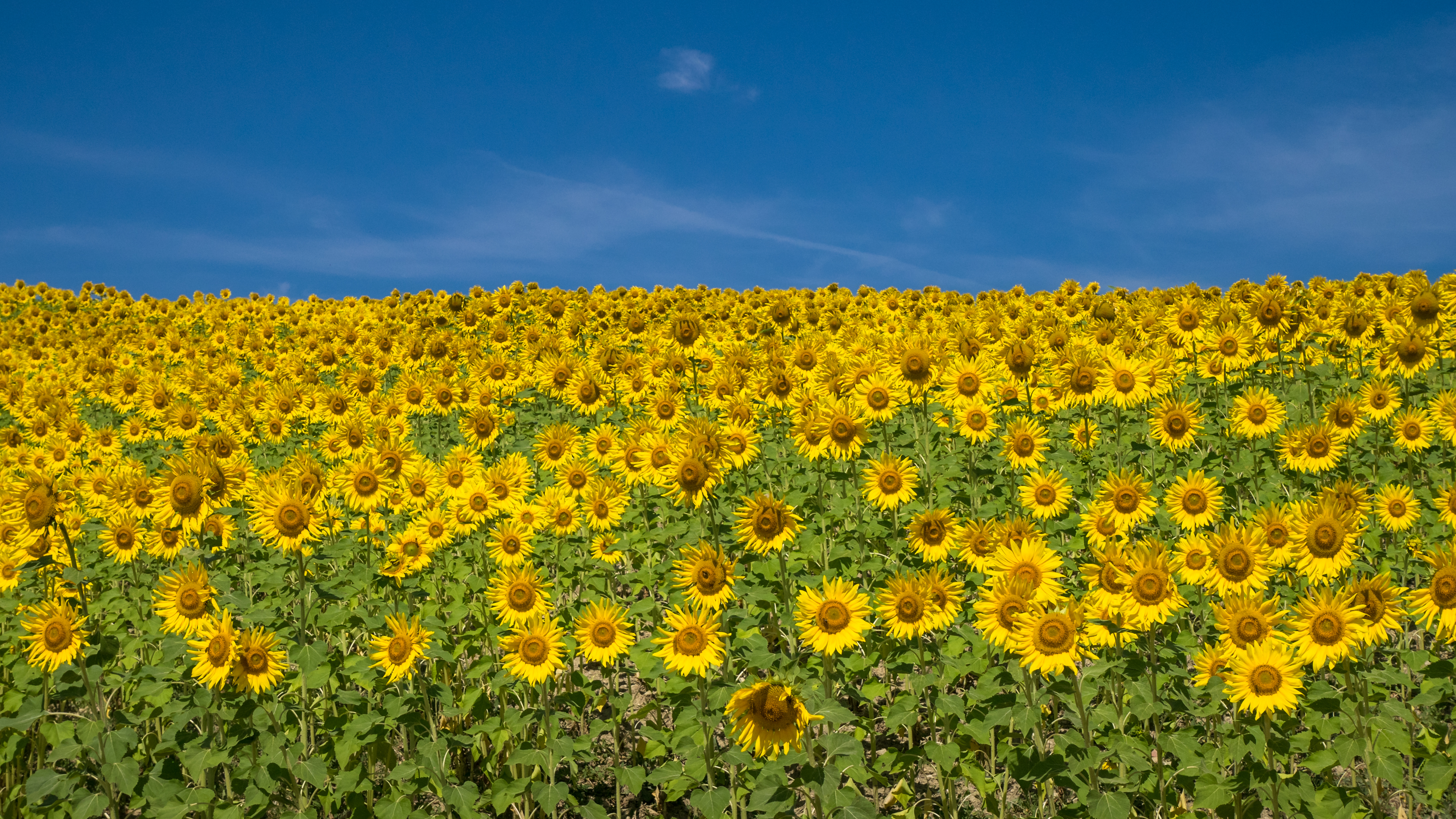 A sunflower field (Helianthus annuus) near Arkaia. Álava, Basque Country, Spain